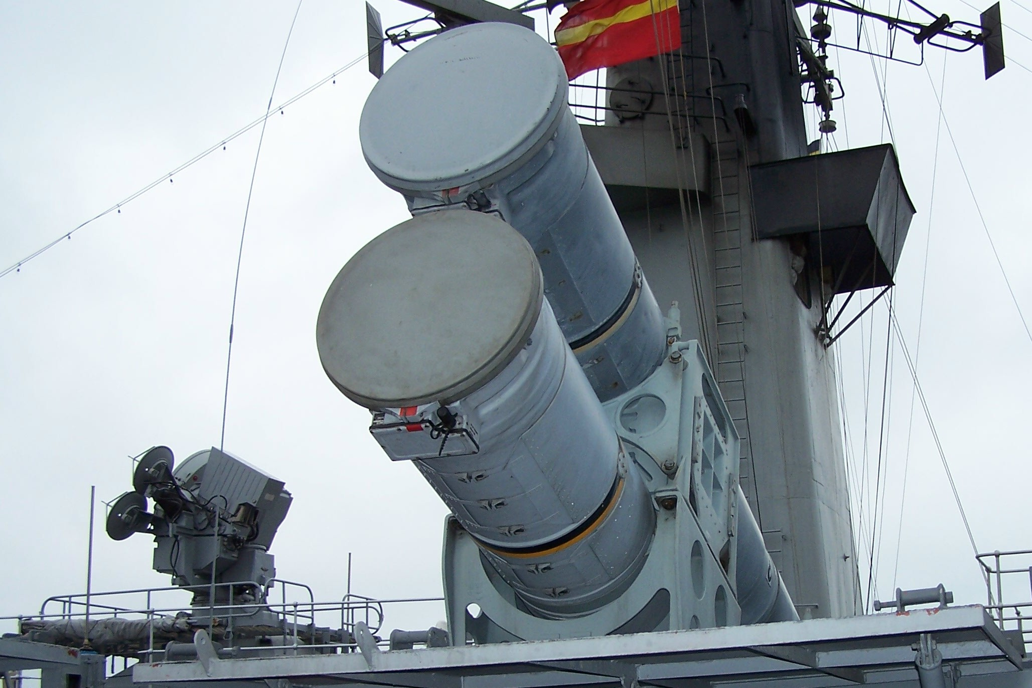 Independência (F-44) Exocet container launch tubes.